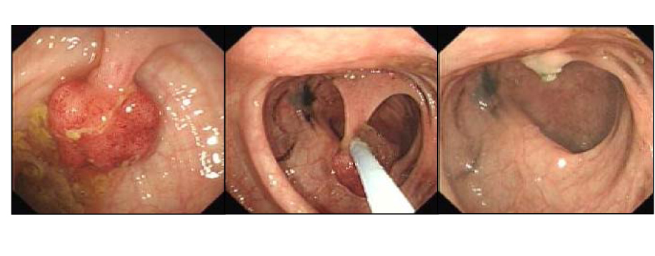 Identification and removal of a pedunculated colonic polyp at colonoscopy